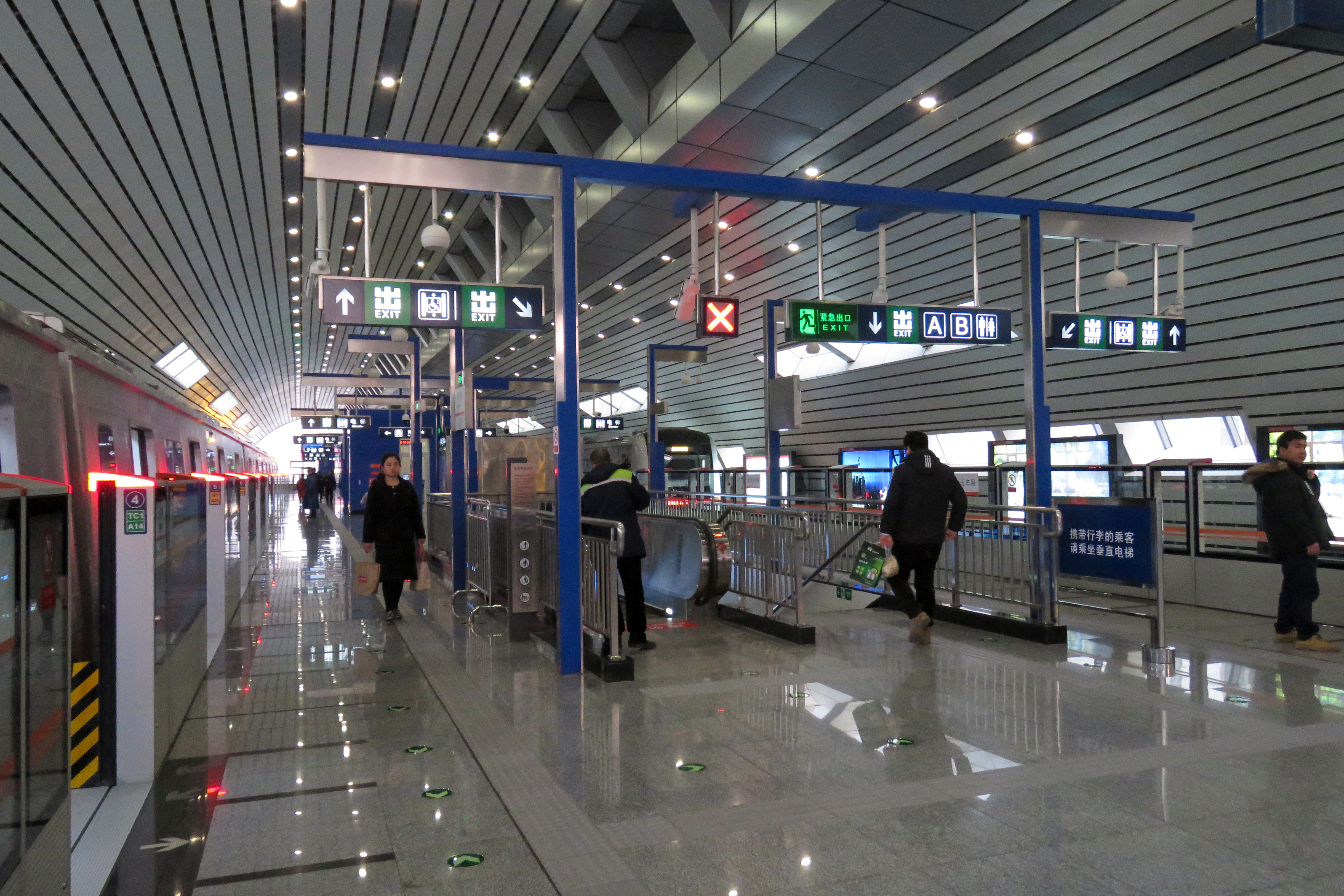 Blue torii for this station.